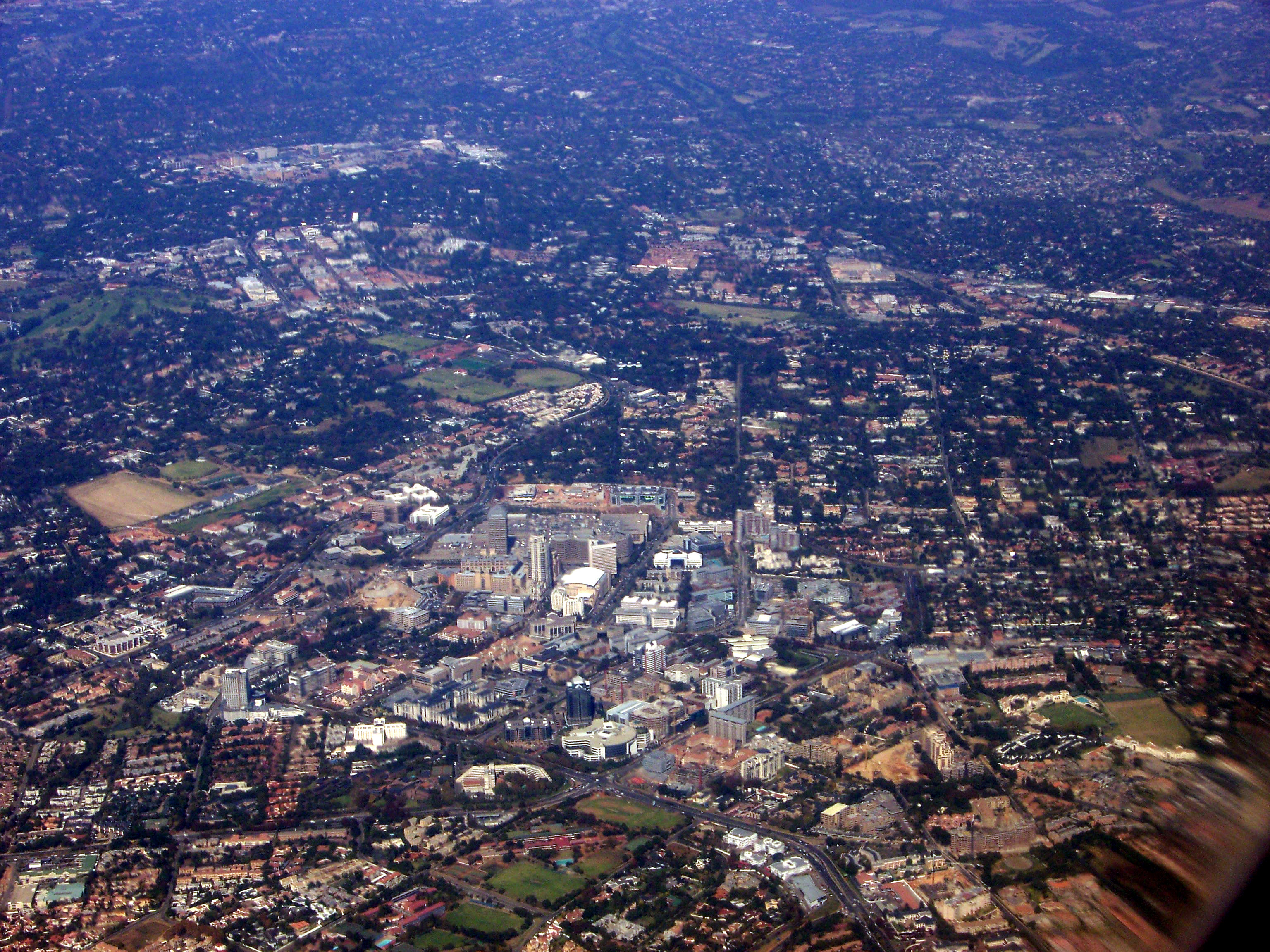 Sandton upon take-off from OR Tambo International Airport